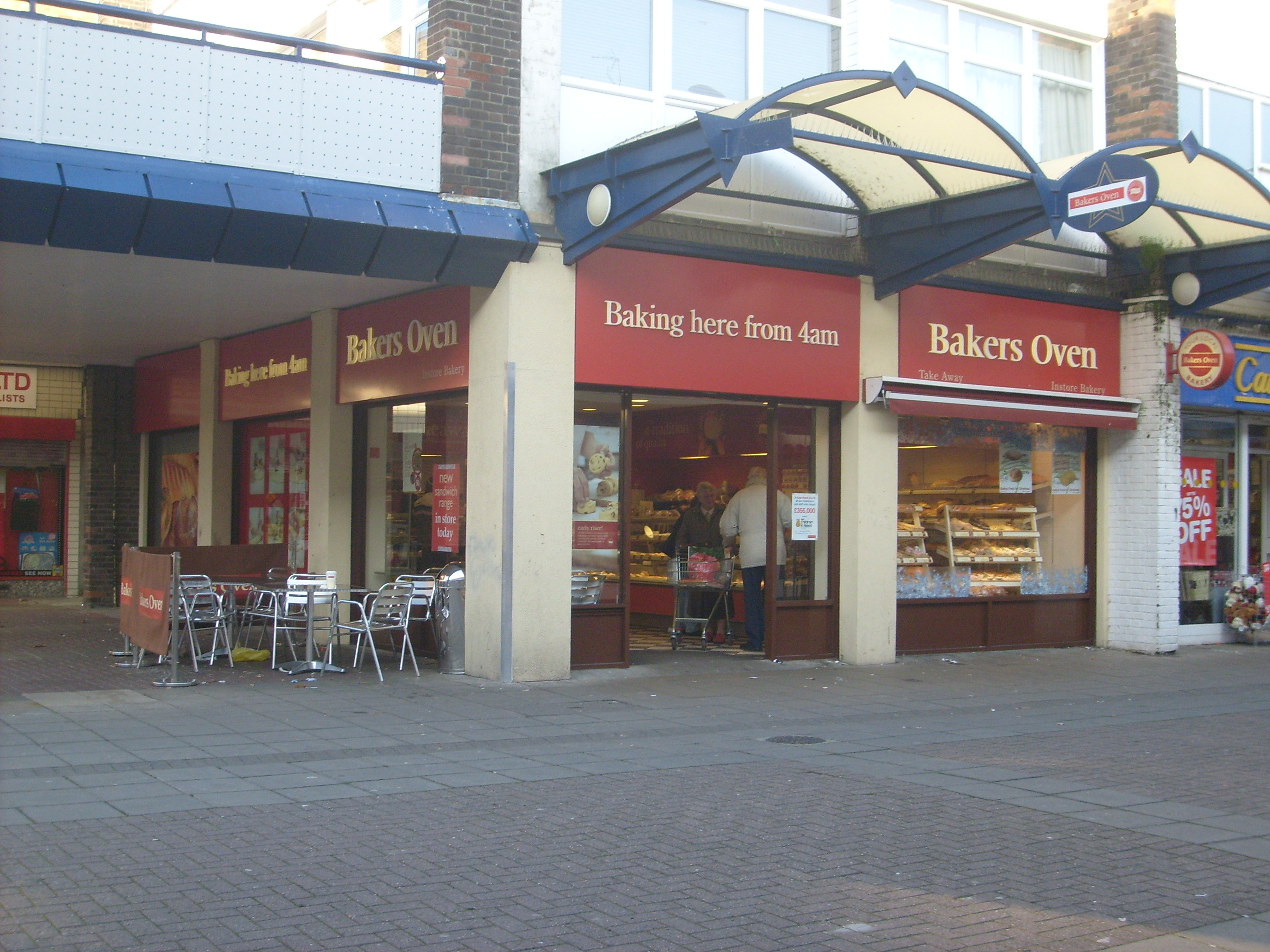 A Bakers Oven shop at 59 Greywell Road, Leigh Park, Havant, Hampshire, England.